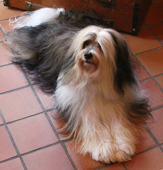 Dali is a Tibetan terrier